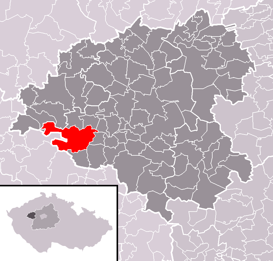 Location of Čistá municipality within Rakovník District and (identical) administrative area of Rakovník as a Municipality with Extended Competence.